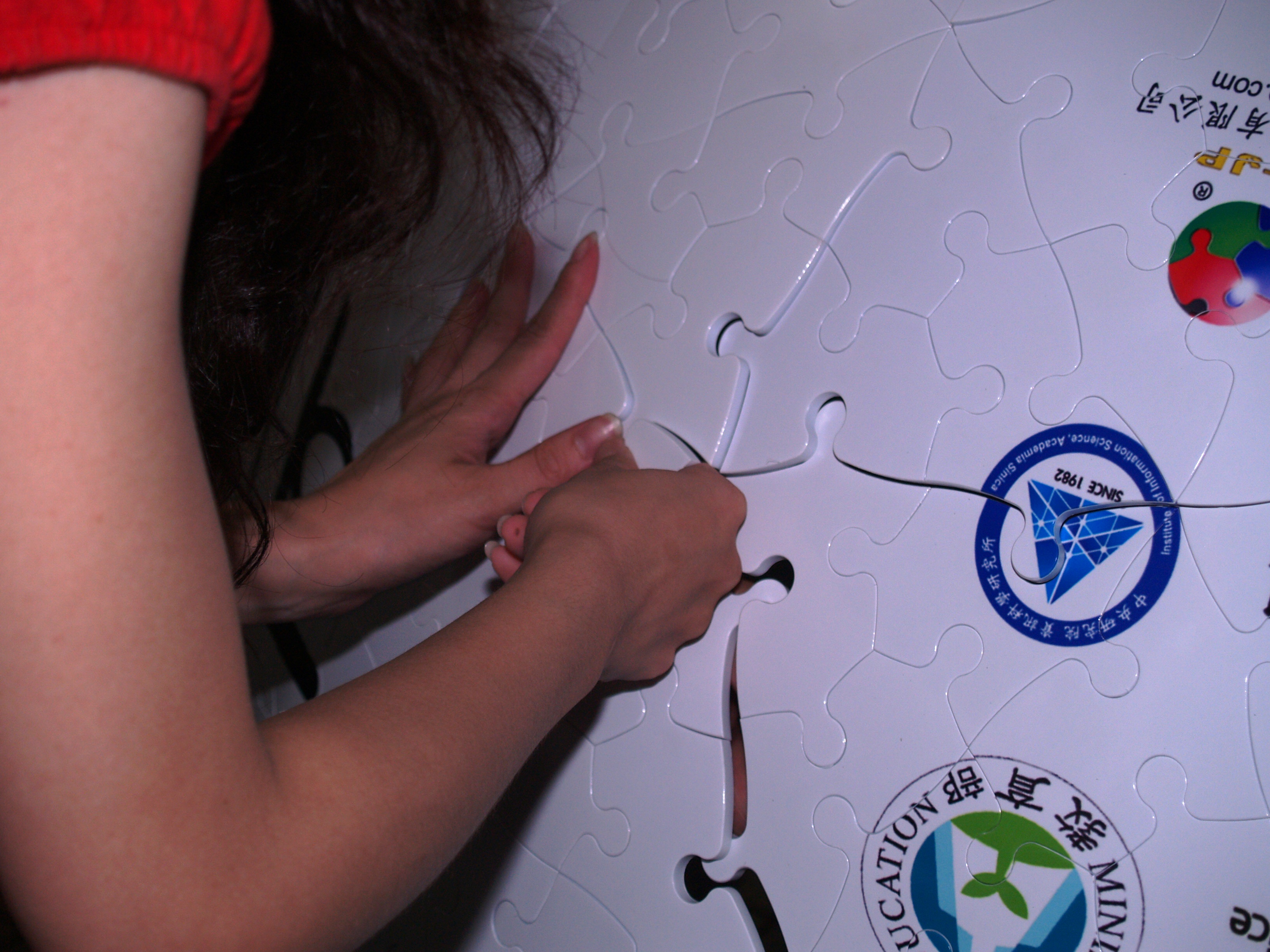 Wikimania 2007: Preparation of Wikiball, staffs puzzled lots of puzzles of Official Wikiball.